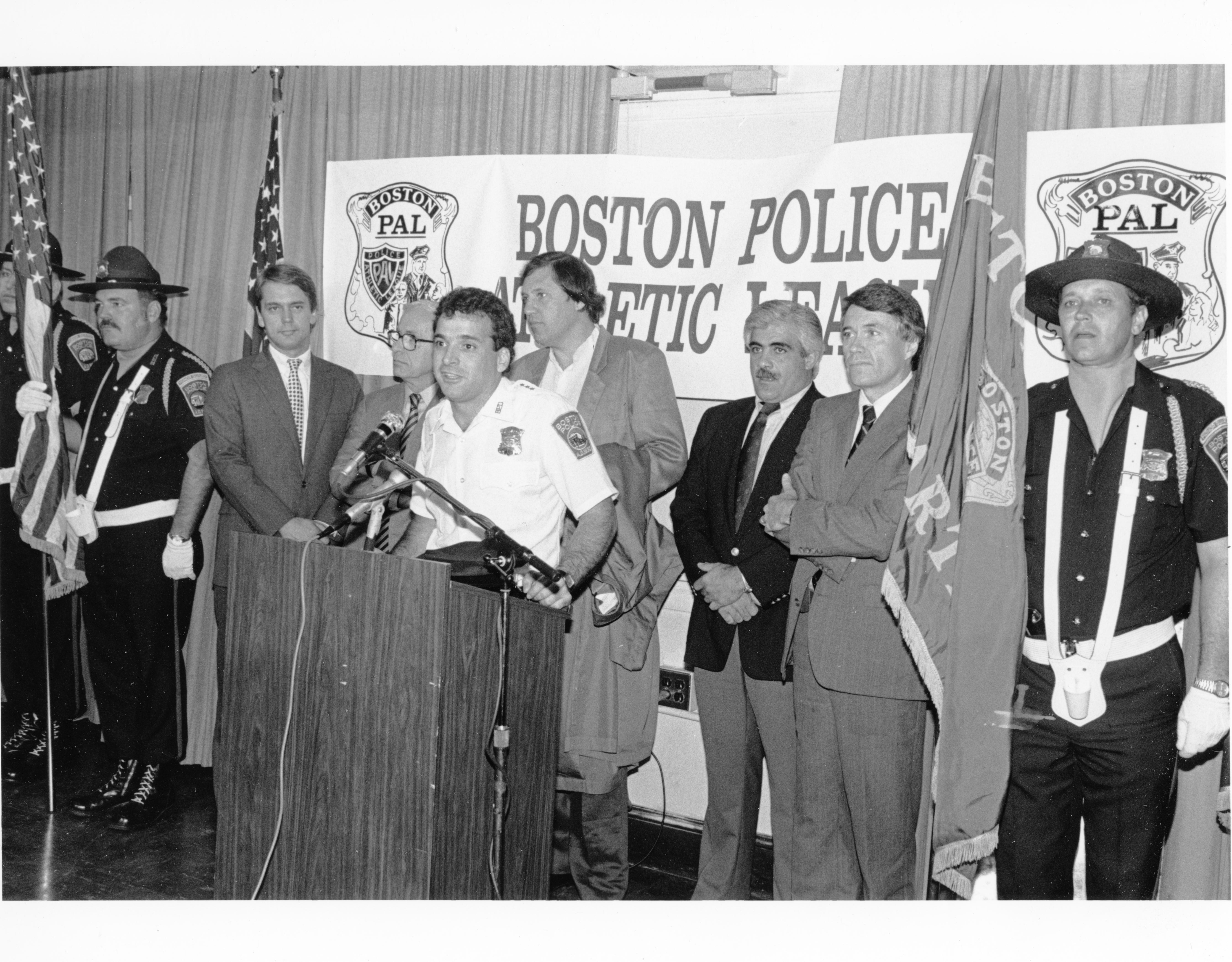 Title: Boston Police Athletic League ceremony Creator: Mayor's Office - City Photographer Date: circa 1984-1987 Source: Mayor Raymond L. Flynn records, Collection #0246.001 File name: RF_068 Rights: Copyright City of Boston Citation: Mayor Raymond L. Flynn records, Collection #0246.001, City of Boston Archives, Boston